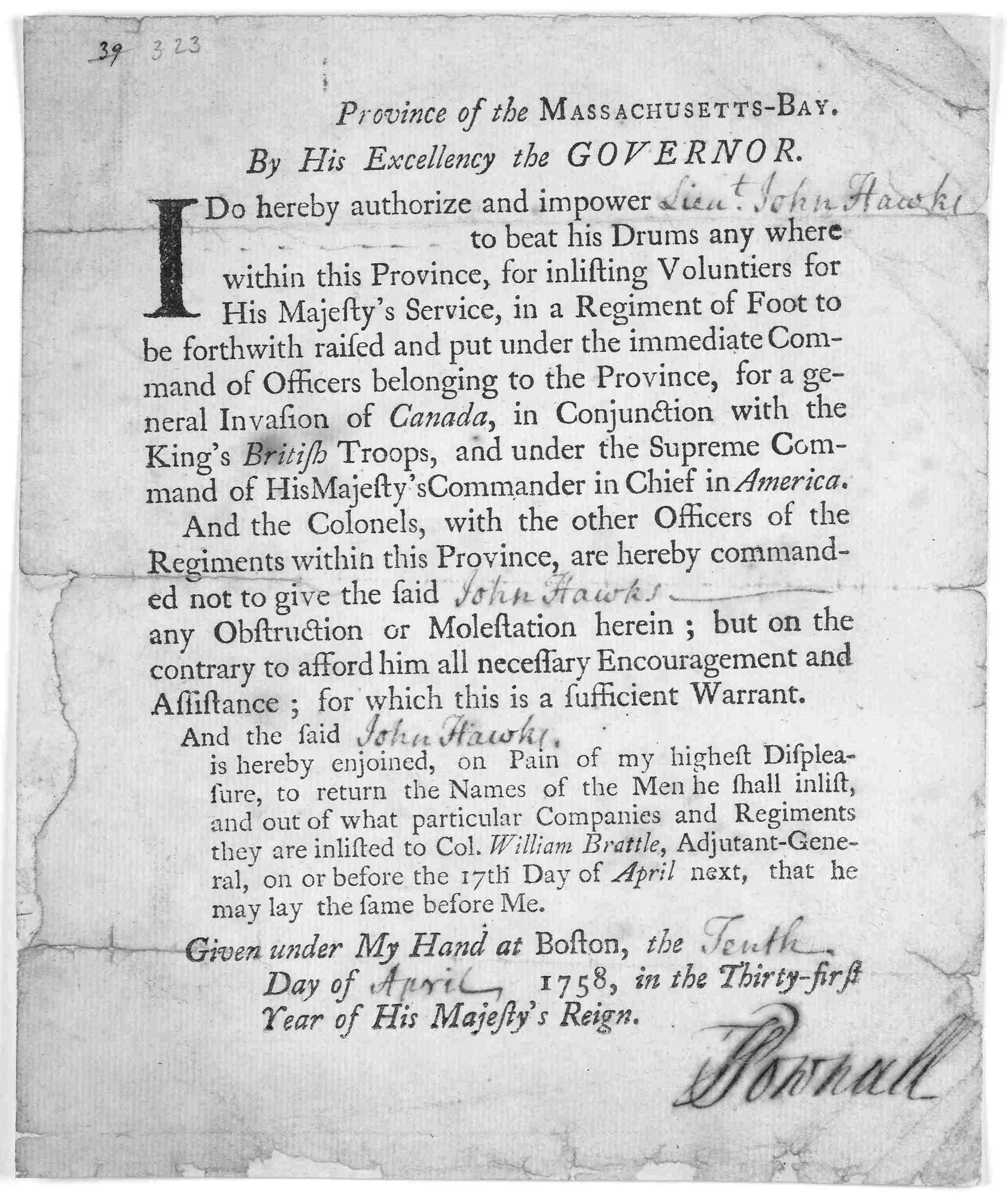 Order by Thomas Pownall, Governor of the colony of Massachusetts, authorizing Lieut. Col. John Hawke to beat his drum for enlistments in a regiment of foot to be raised in his majesty's service for the invasion of Canada. Image courtesy of the Library of Congress, Washington, D. C. [1]